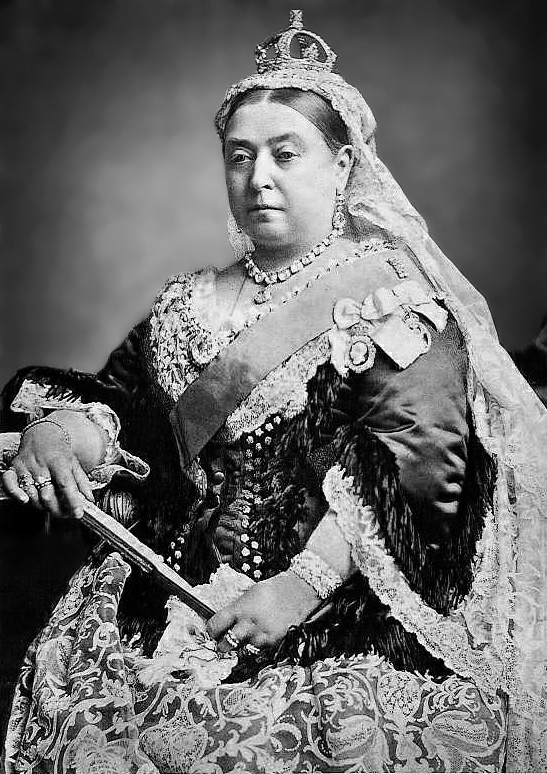 Portrait of Queen Victoria of England, Empress Victoria of India